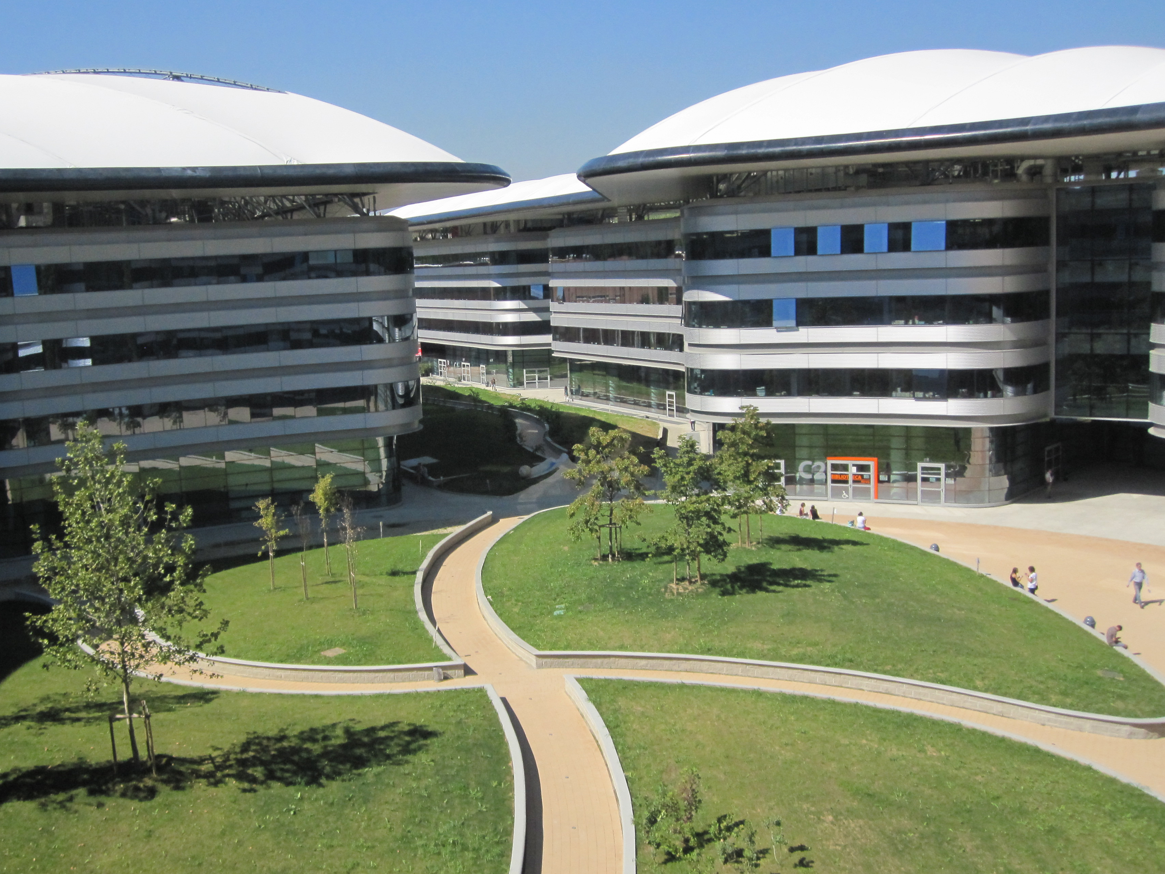 Campus garden in springtime